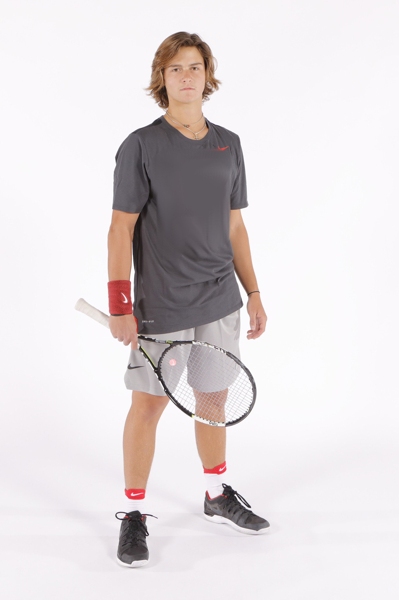 JJ Wolf Tennis Profile Photo